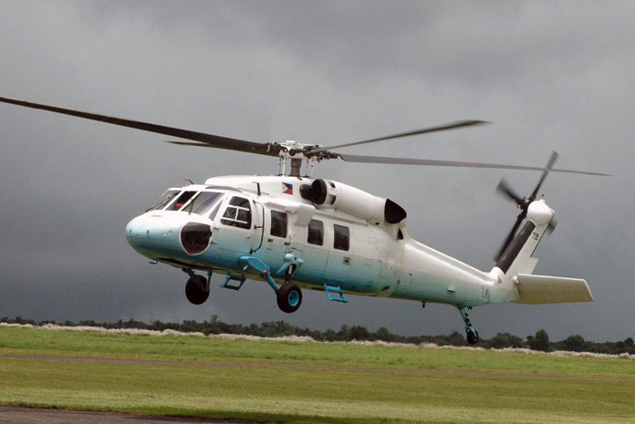 A Philippine Air Force S-70A-5 Black Hawk of the 250th Presidential Airlift Wing